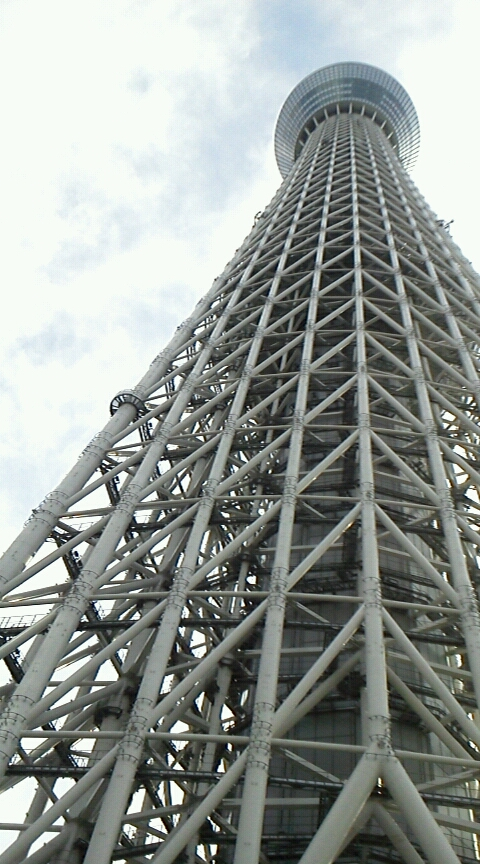 The Tokyo Skytree, in Sumida-Ku, Tokyo, Japan. Photo by Mshin, 2012-05-26.